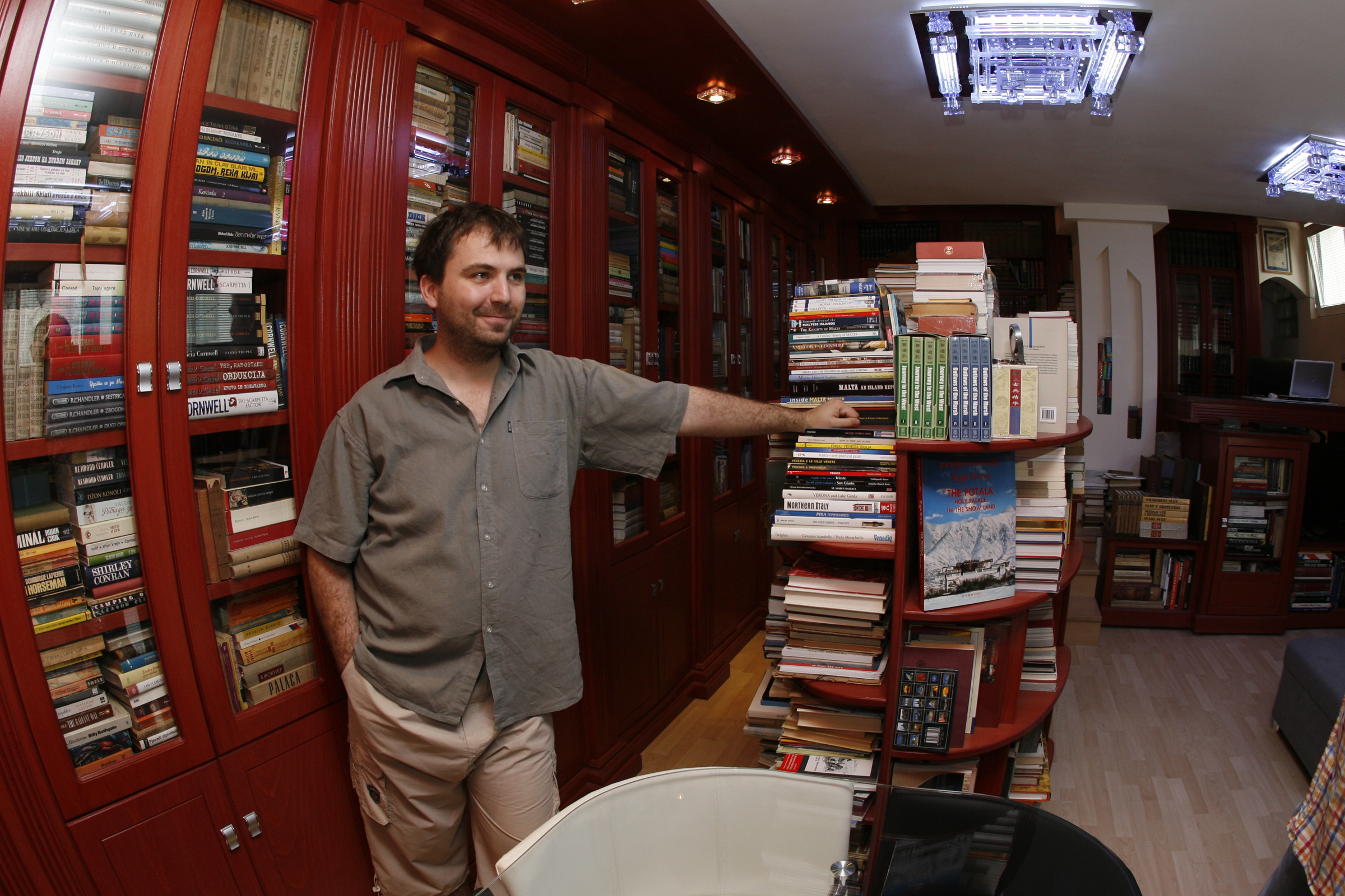 Viktor Lazić in the Museum of Book and Travel Српски (ћирилица): Виктор Лазић у Музеју књиге и путовања